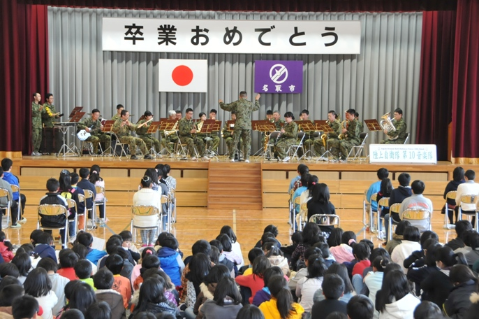 Title 23.3.29 １０音：音楽演奏・閖上小学校卒業式（那智が丘小）⑥.JPG Album 東日本大震災における災害派遣活動 慰問演奏活動